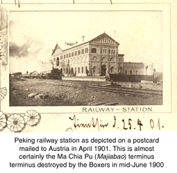 Peking : Machiapu railway station prior to its destruction in June 1900